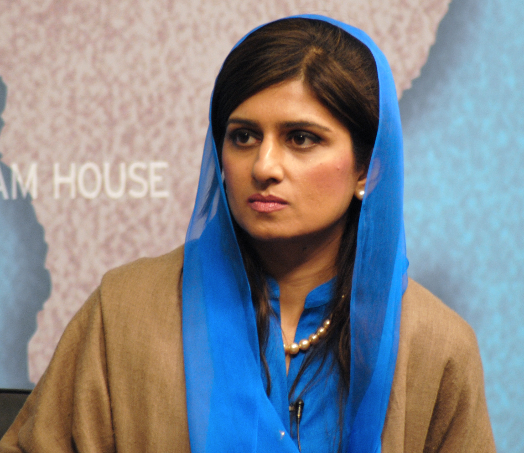 Hina Rabbani Khar, Foreign Minister, Pakistan.